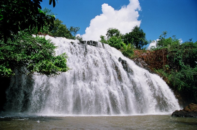 Queima-Pé